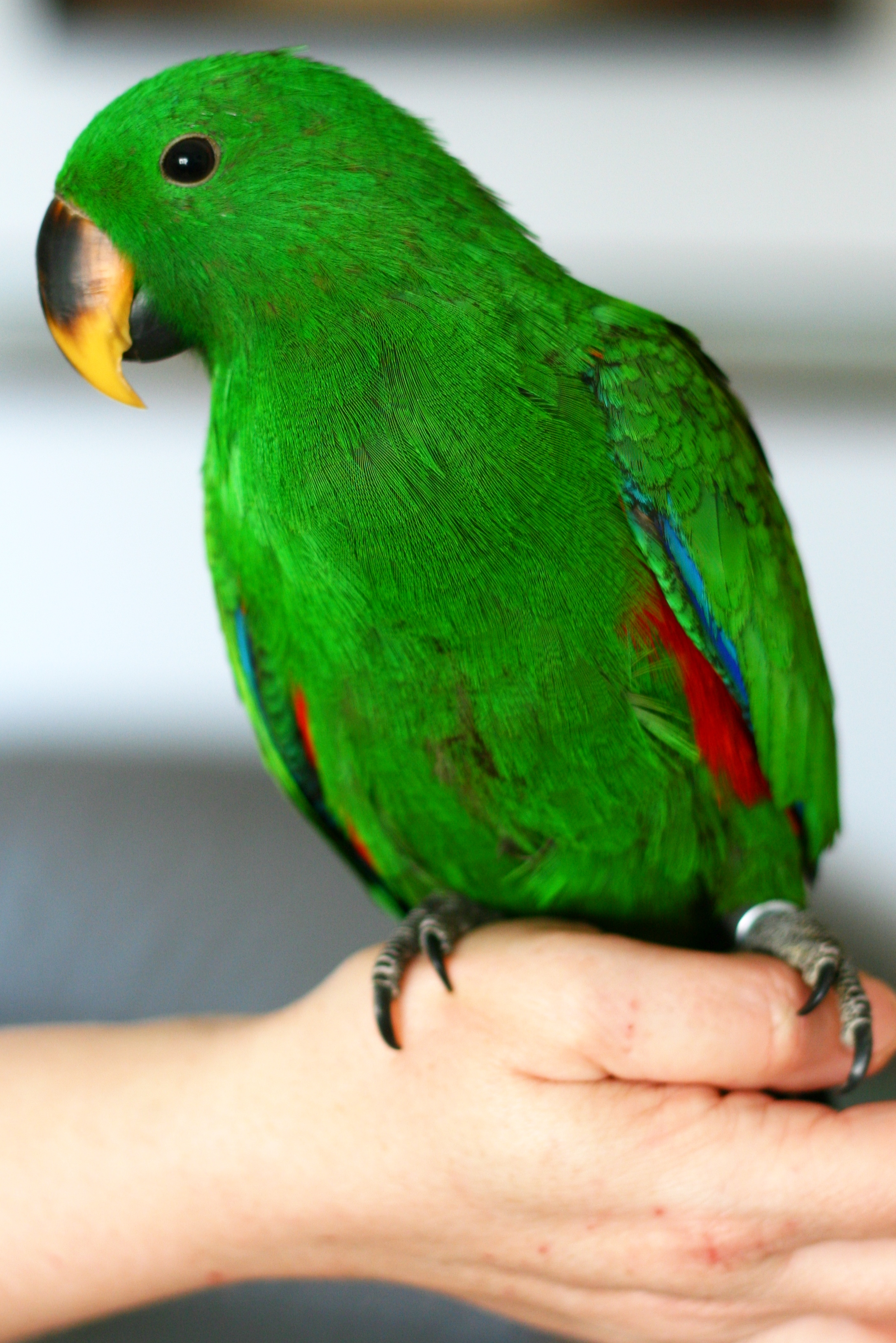 Eclectus Parrot. A pet male juvenile parrot. The base of its upper beak is partly a brown/black colour, unlike the all yellow colour of the adult's upper beak. Also, its iris shows the dark brown colour of the juvenile.